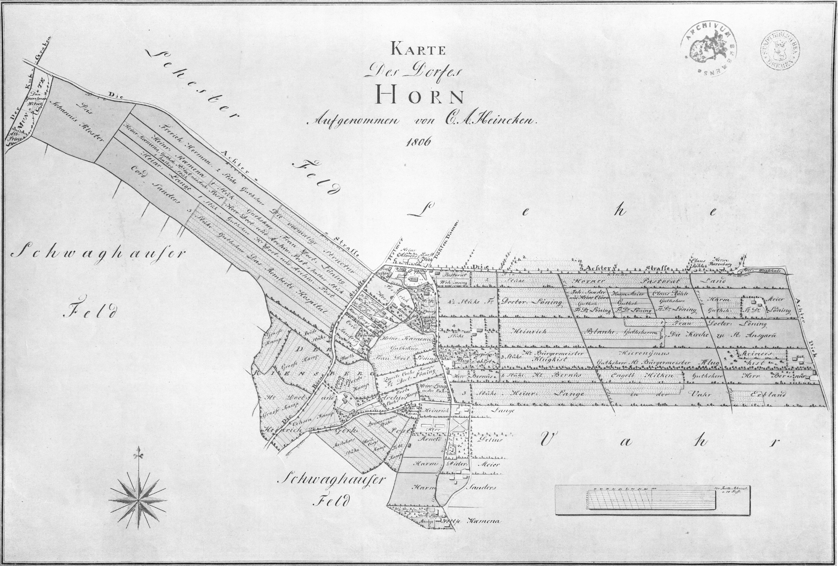 Original title: Map of Horn village, survey by C. A. Heineken 1806